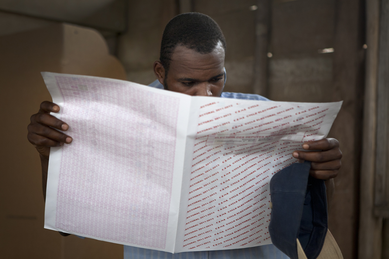 Presidential and legislative elections in DRC, Walikale 28 november 2011.